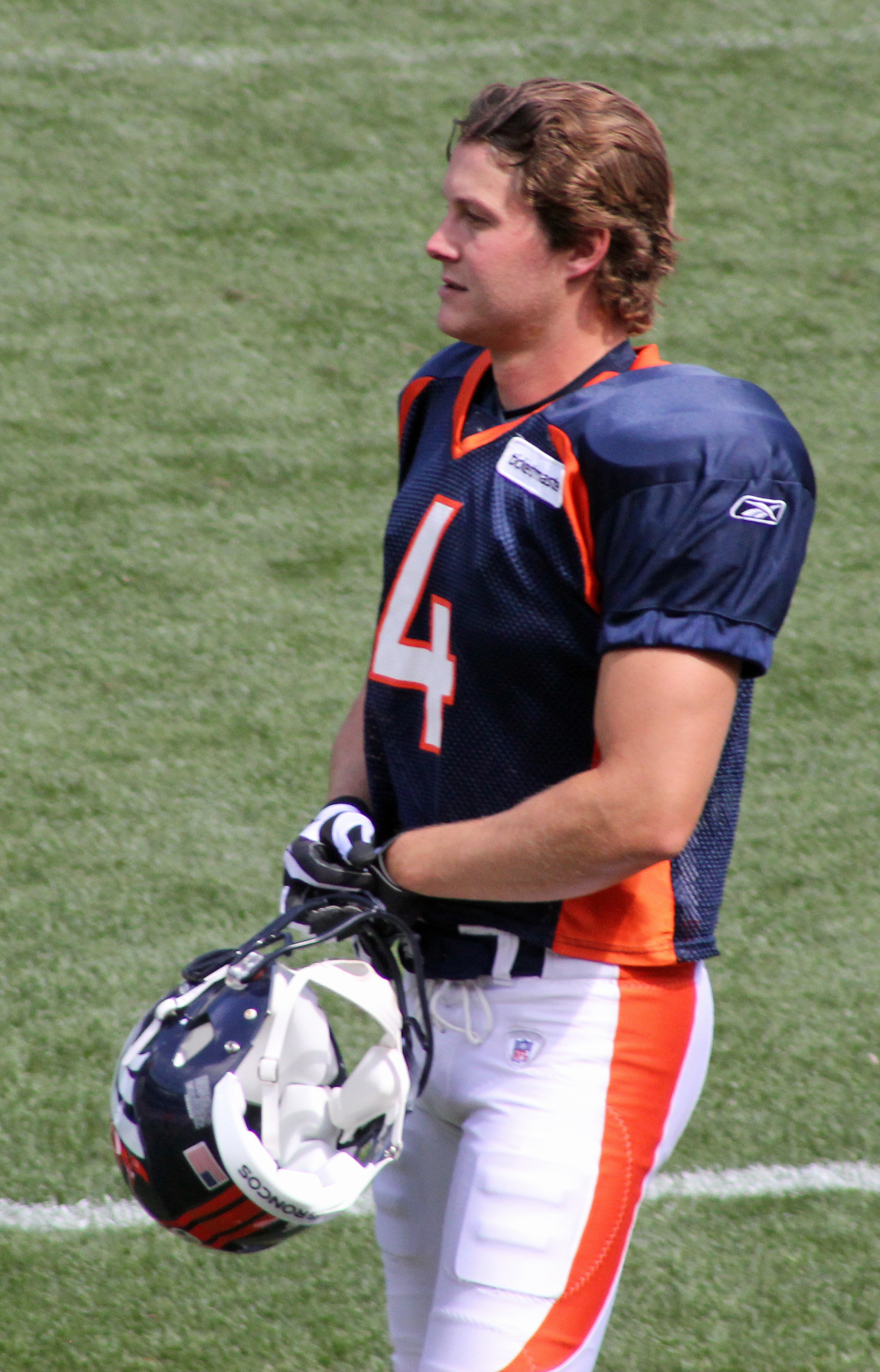 Britton Colquitt, a National Football League player.